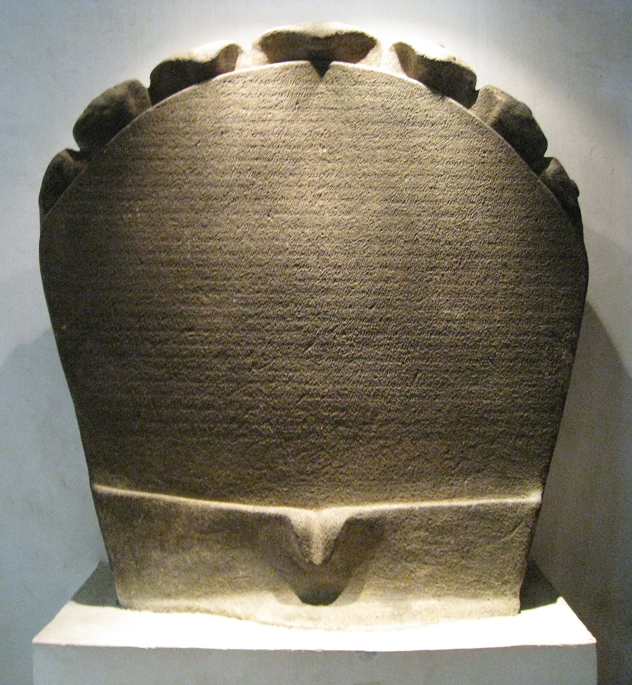 Telaga Batu inscription, one of Srivijaya Sidhayatra inscriptions. The inscription is mentioned about curse upon whomever committed crime against Kadatuan Srivijaya. Today the inscription is displayed at National Museum of Indonesia in Jakarta.